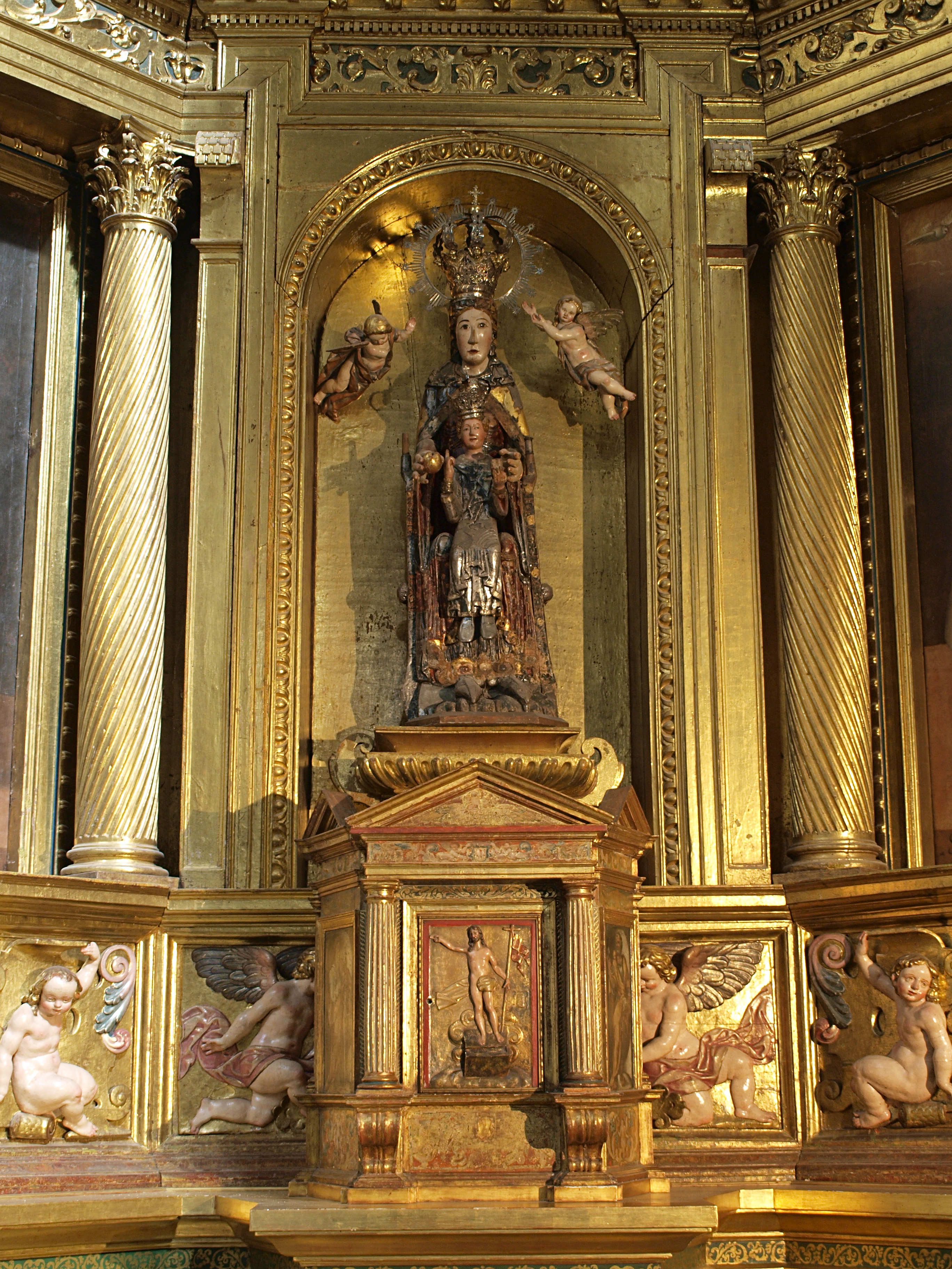 Astorga Cathedral, Astorga (Province of León, Spain).